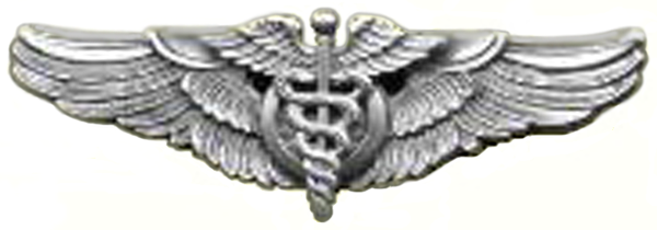 Obsolete United States Army Air Force surgeon insignia